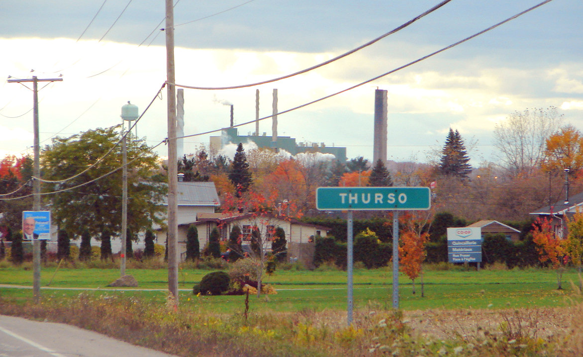 Thurso, Quebec, Canada